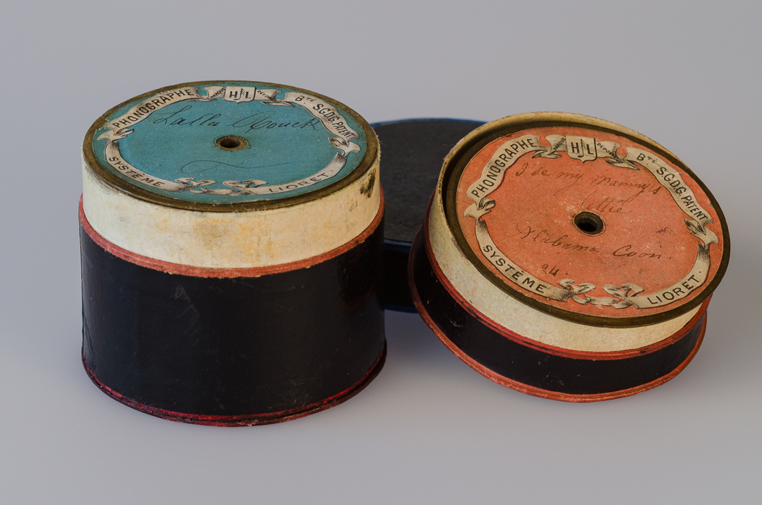 Lioret cylinder